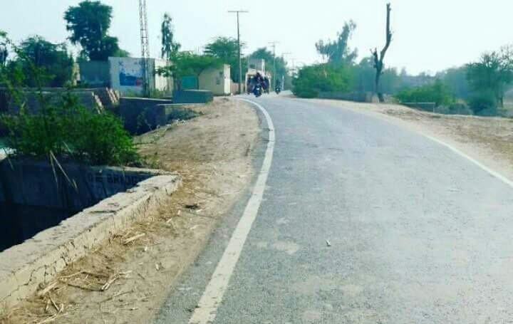 I also Uploaded this Photo on Botala Facebook Page & on website